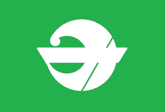 Flag of Mihama Wakayama